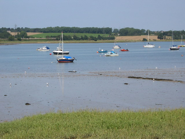 The Stour Estuary. View across the Stour from Manningtree, Essex, across the border into Suffolk on the far bank.